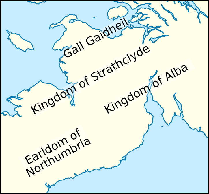 Map showing various regions mentioned in the Wikipedia article concerning Máel Coluim, son of the king of the Cumbrians.